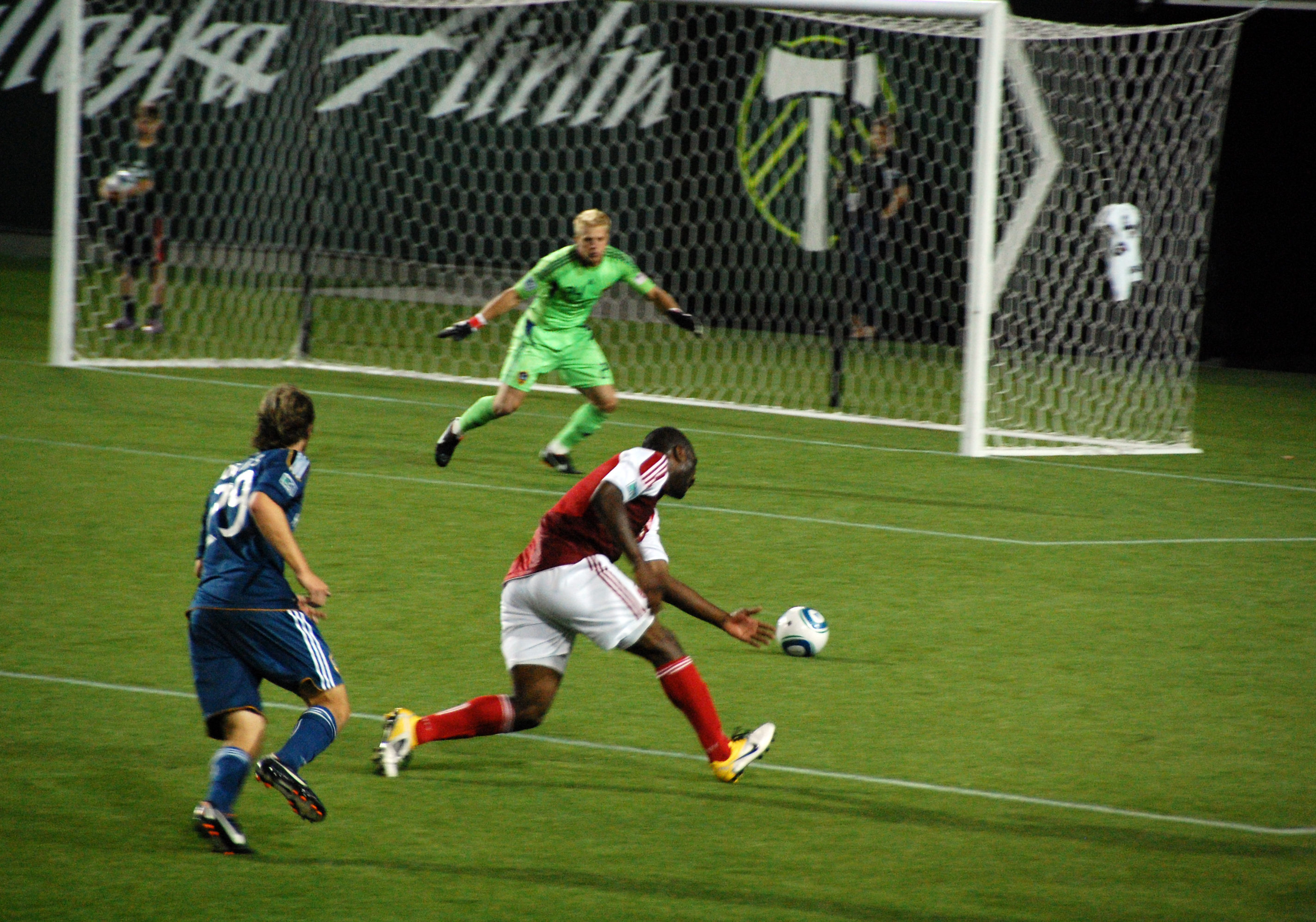 Bright Dike against LA Galaxy in MLS Reserve League